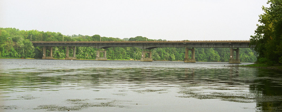 The Enfield-Suffield Veterans Bridge over the Connecticut River between, yes, Enfield and Suffield, Connecticut.